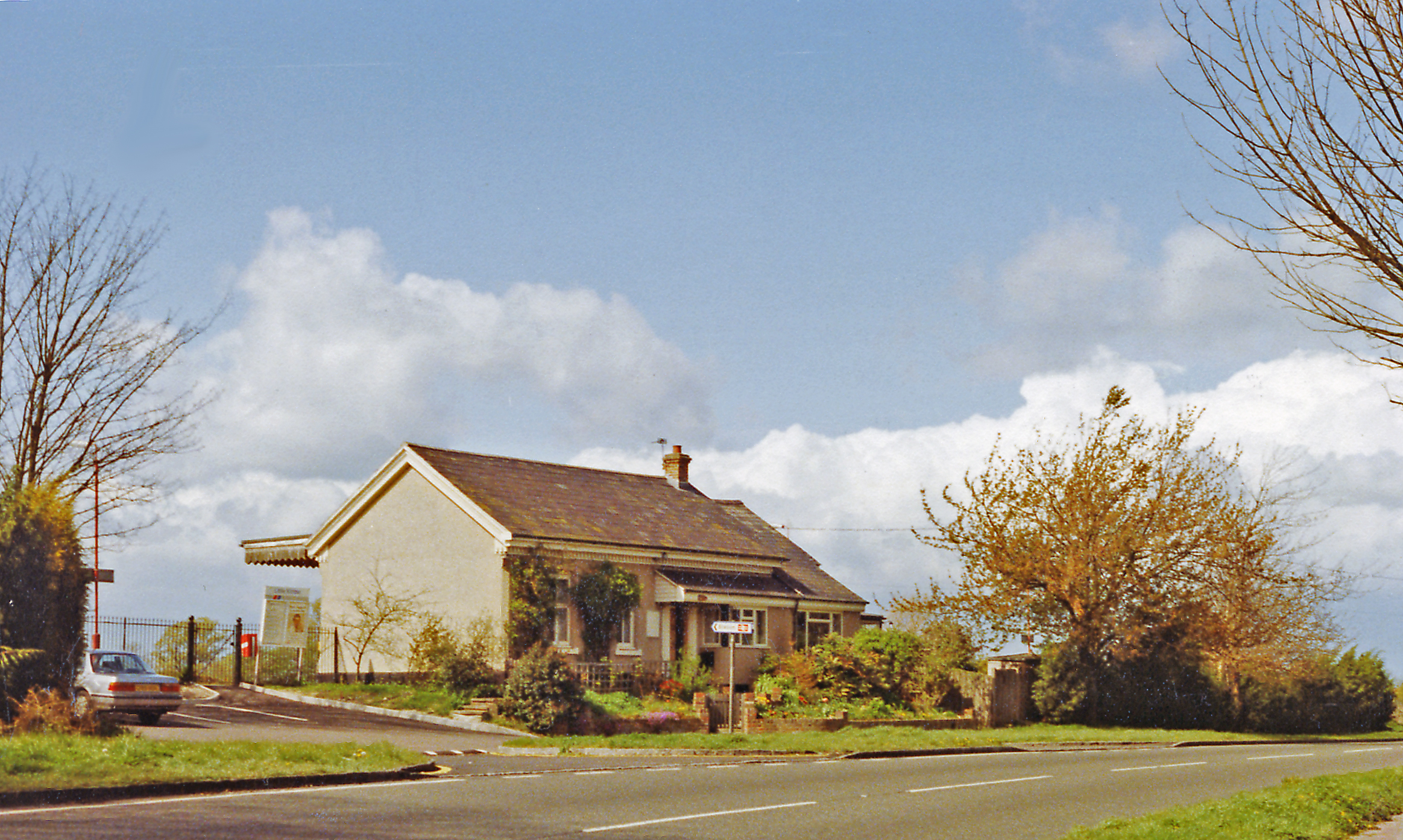 Little Kimble station, 1990. View NW from the A4010 road: ex-GWR Princes Risborough - Aylesbury line. The station and line are still functioning, but the house is now privately occupied.